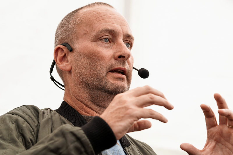 Thomas Boberg at Litteraturexchange Festival (Aarhus, Denmark 2019)